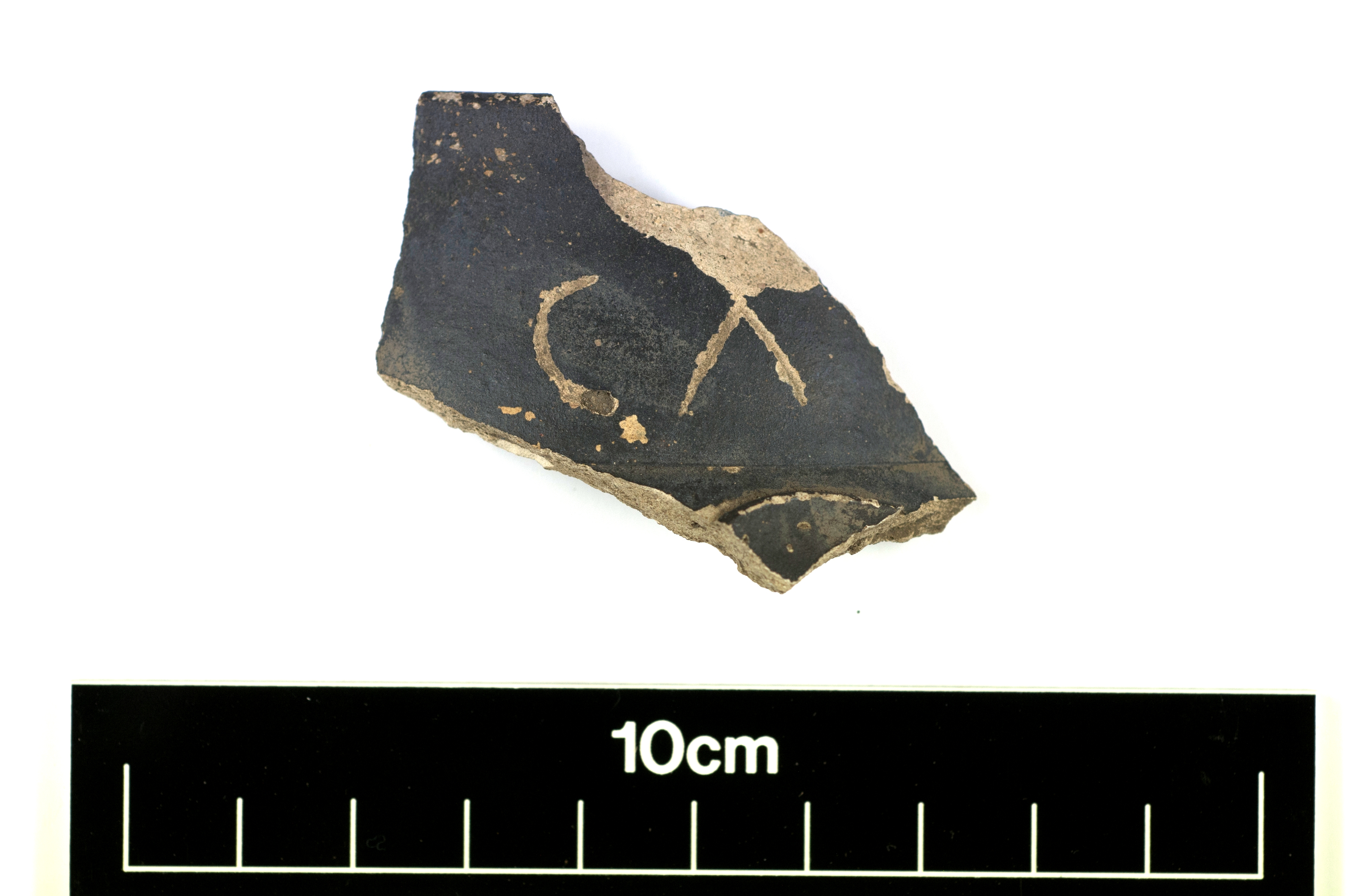 Pedestal beaker neck fragment, of Nene-Valley Colour Coated ware. Scratched with graffito at the neck: CA